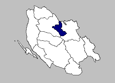 Self-made map of the Vrhovine municipality within the Lika-Senj County.